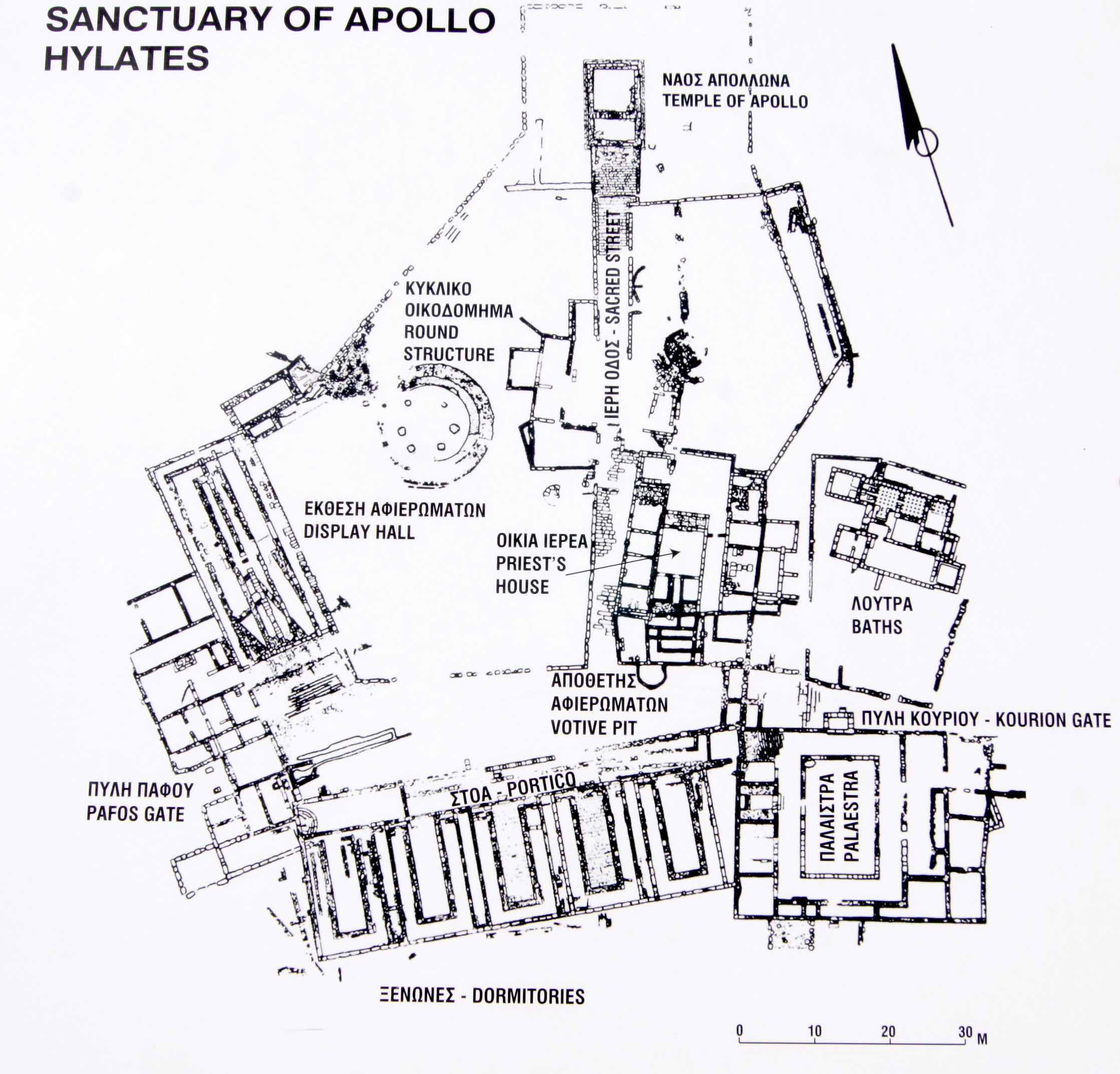 Kourion sanctuary